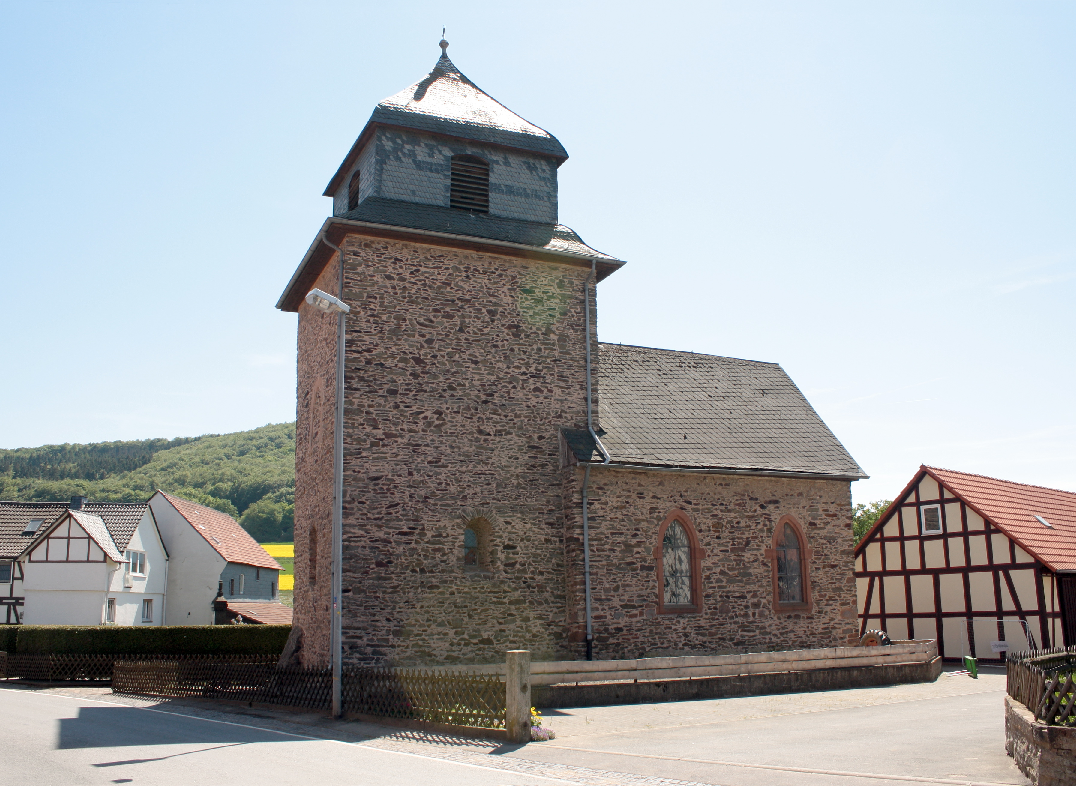 The church in Dilschhausen, Marburg